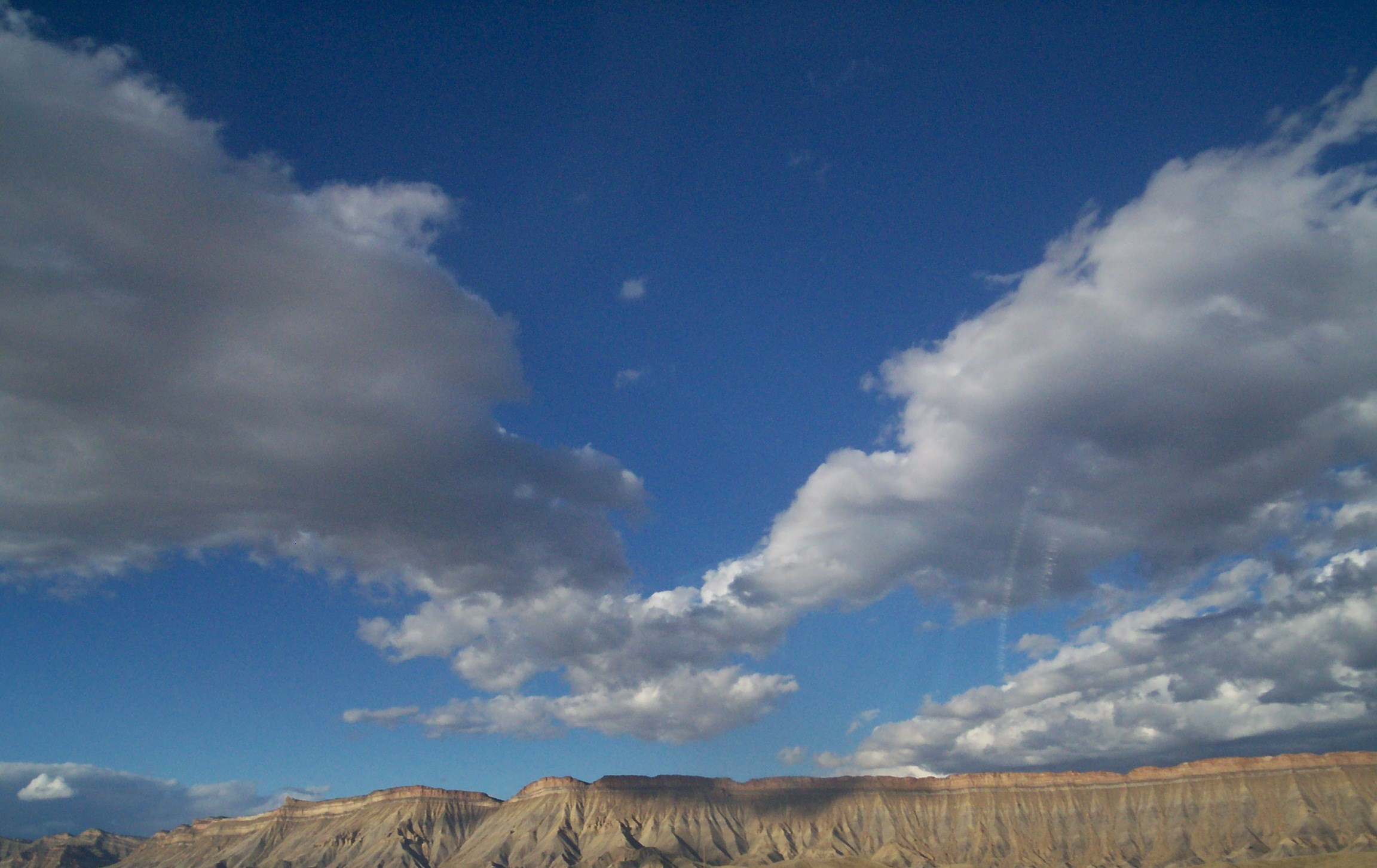 The Book Cliffs of western Colorado.